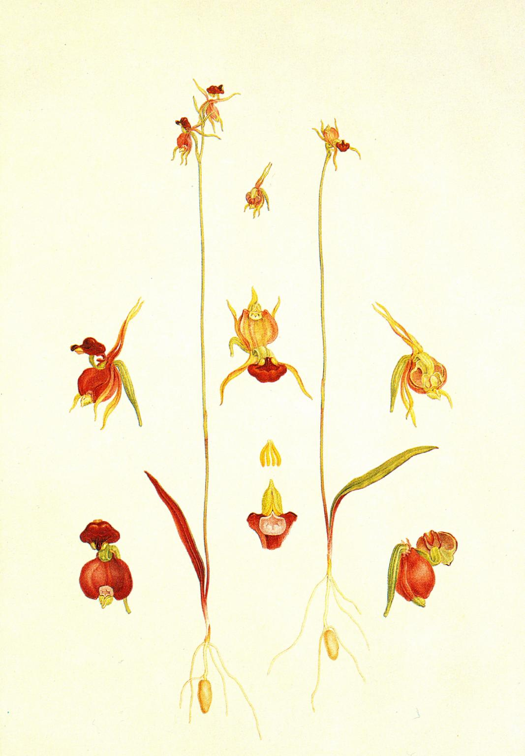 This is an painting of Caleana major by Ferdinand Bauer, based on a drawing by him of material collected at Sydney in September 1803. It first appeared as Plate 8 in Stephan Endlicher's 1838 Iconographia.